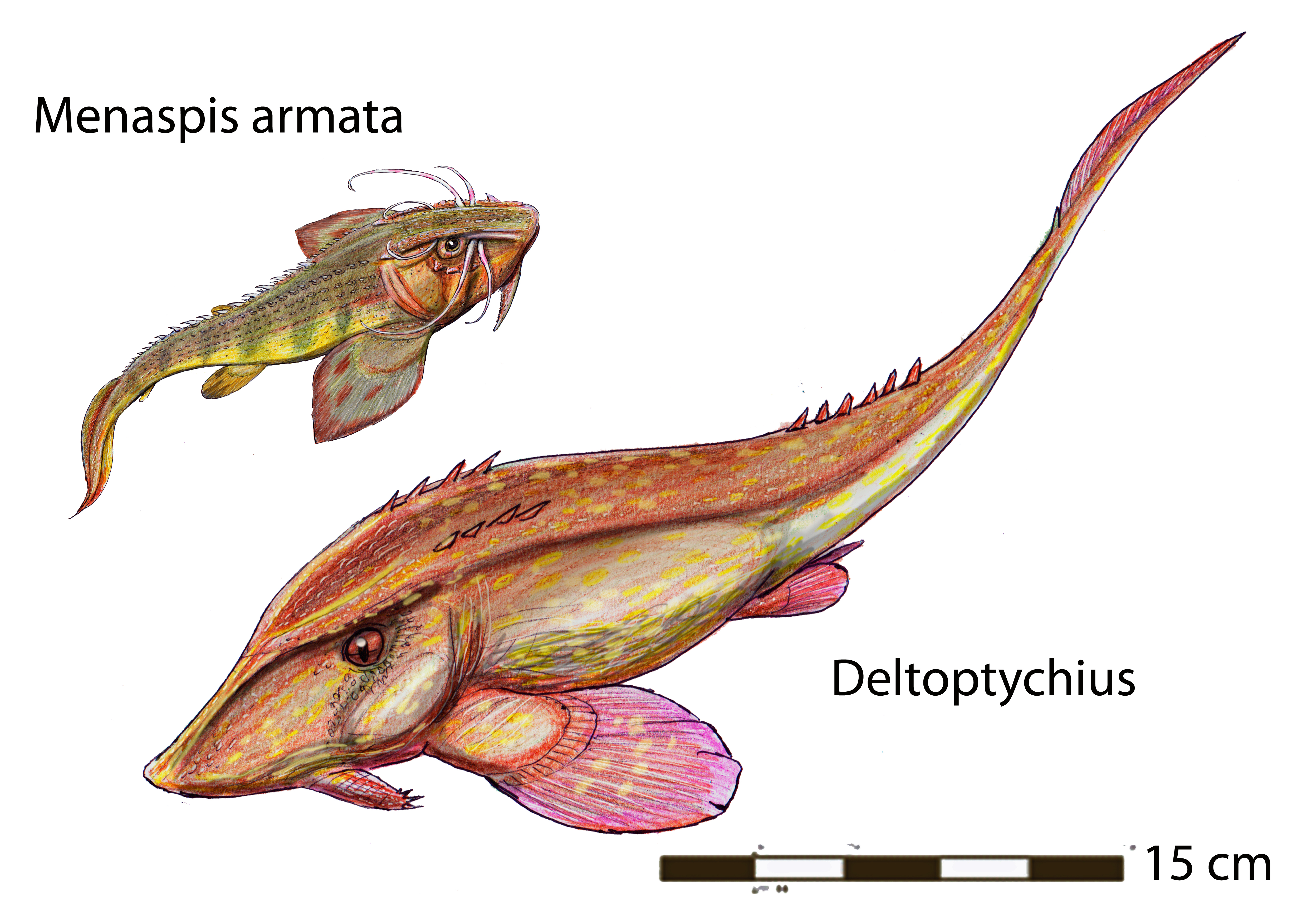 Holocephalian fishes - Menaspidae - Menaspis from Late Permian and Deltoptychius from Carboniferous.